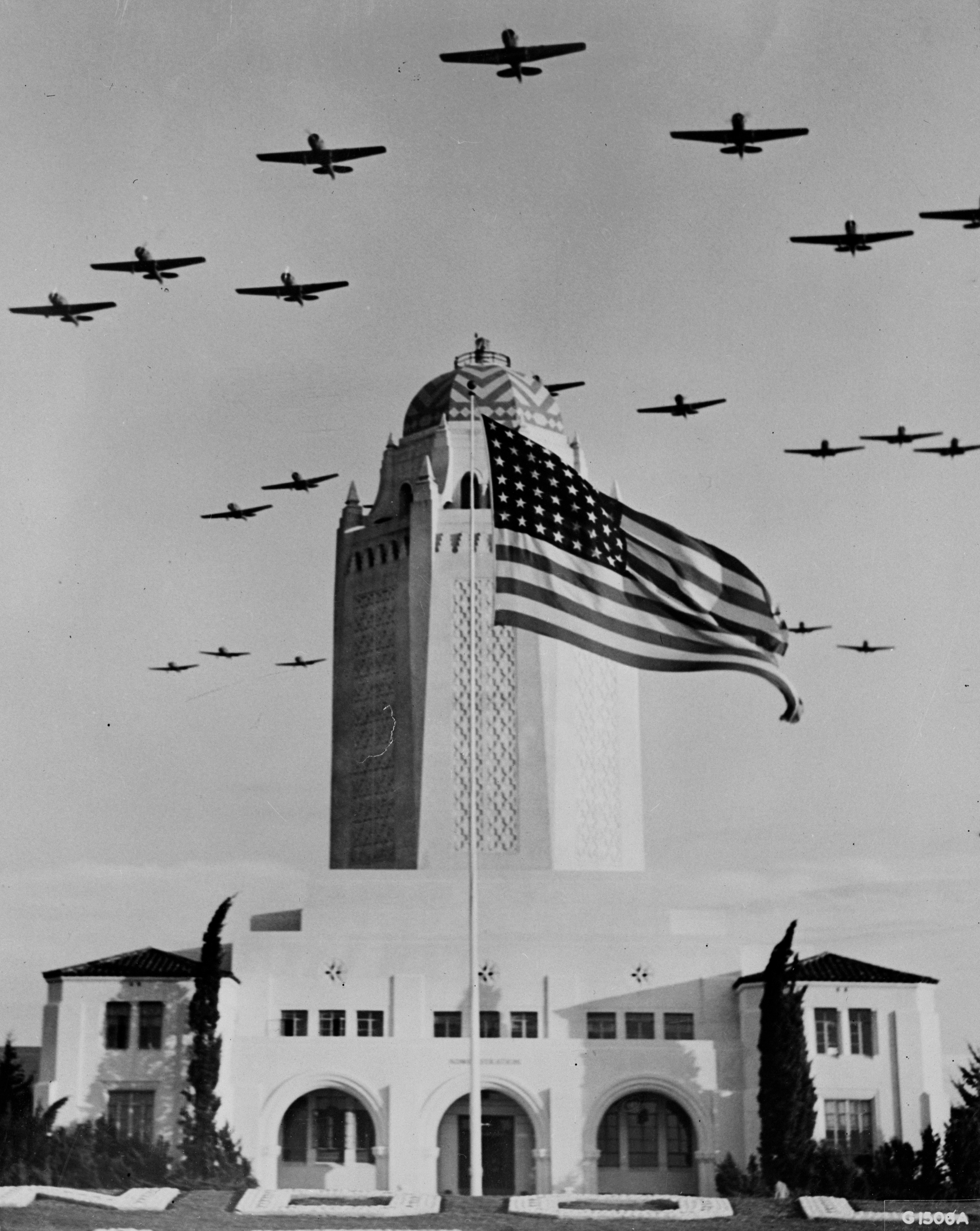 U.S. Army Air Forces North American T-6 Texan training planes fly over the Taj Mahal building, also known as the Administration Building, at Randolph Airfield, San Antonio, Texas (USA), in 1942. Built in the 1920s, it is today a National Historic Landmark. Original caption: “War birds aloft form a background for Old Glory and the 170-foot tower of the administration building of Randolph Field, Texas. This formation of basic training planes is piloted by flying tutors and closely observed by the aviation cadets who soon will be practicing such aerial maneuvers at advanced or specialized schools.”